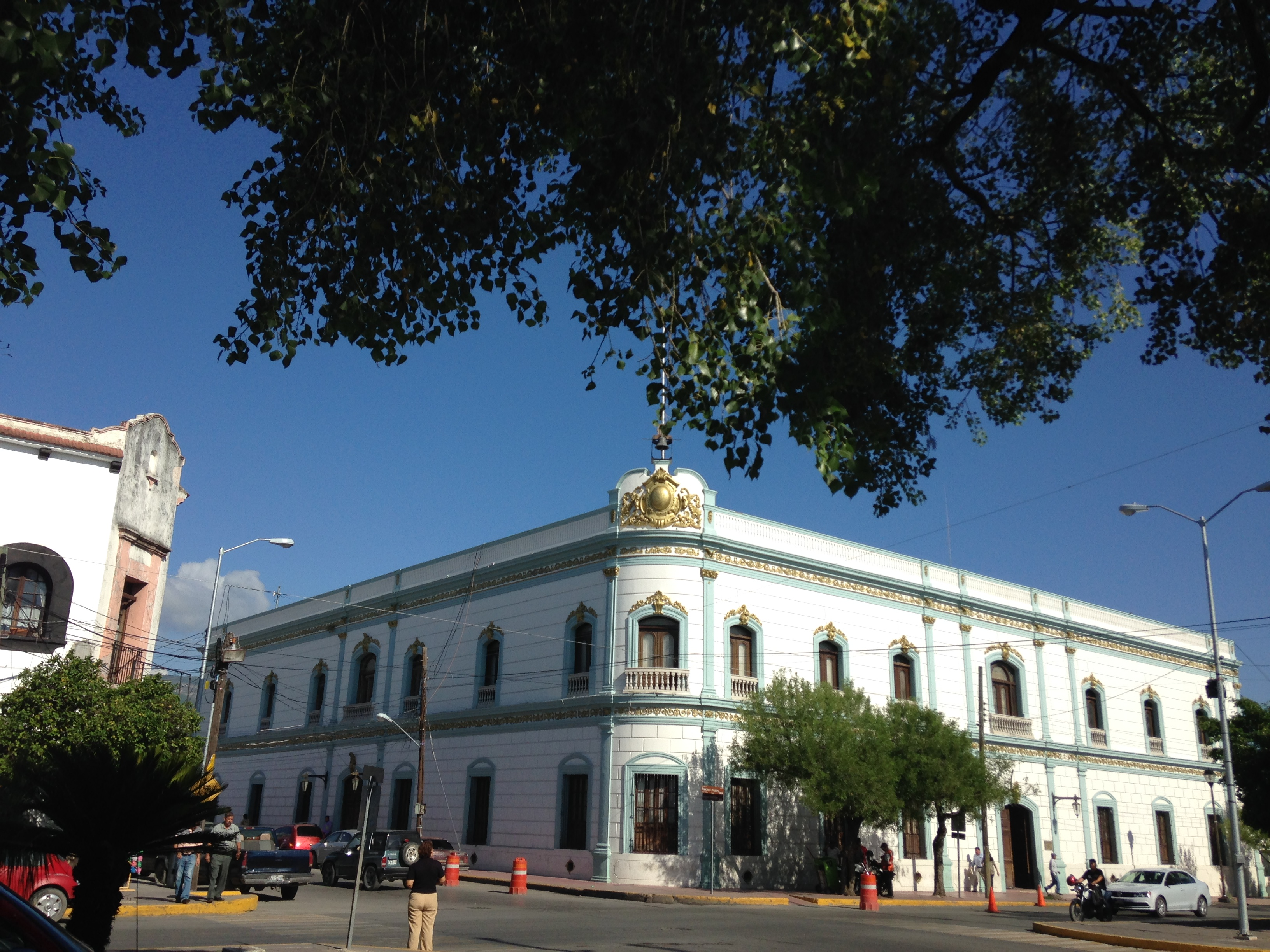 Fachada del edificio del ayuntamiento en Ciudad Victoria Tamaulipas Mexico